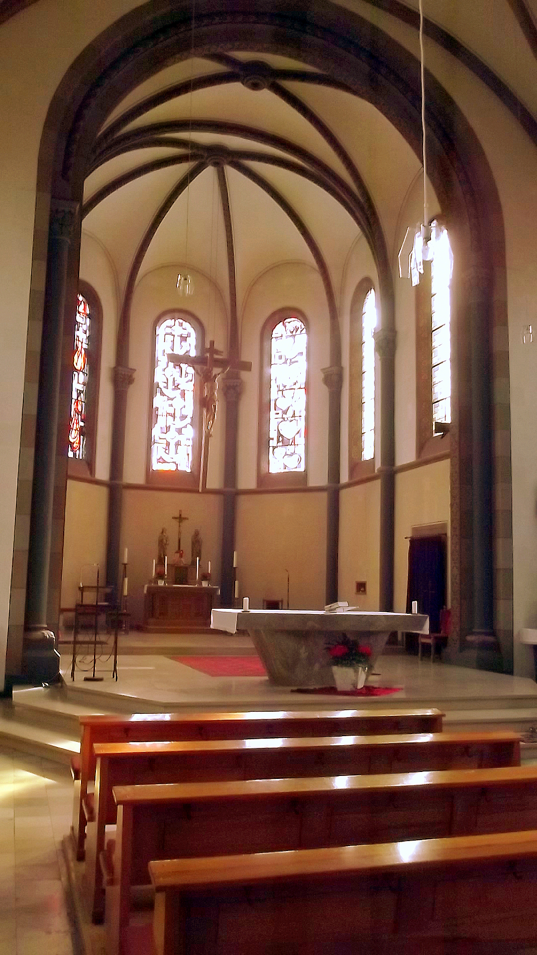 Interior of the roman catholic church in Großrosseln, Saarland, Germany